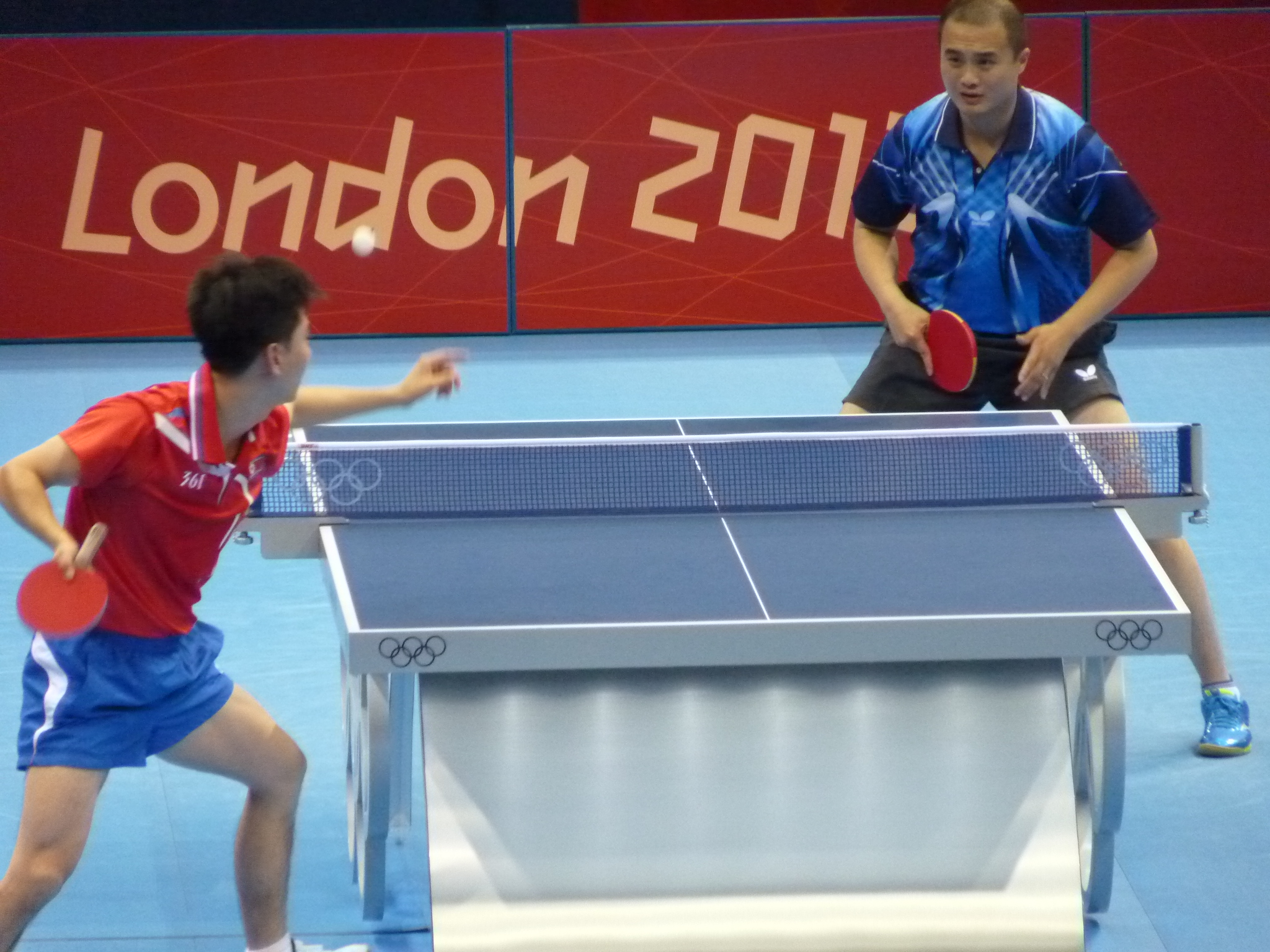 Lin Ju v Kim Song Nam, 1st round of men's table tennis, ExCel arena, London Olympics, 28 July 2012